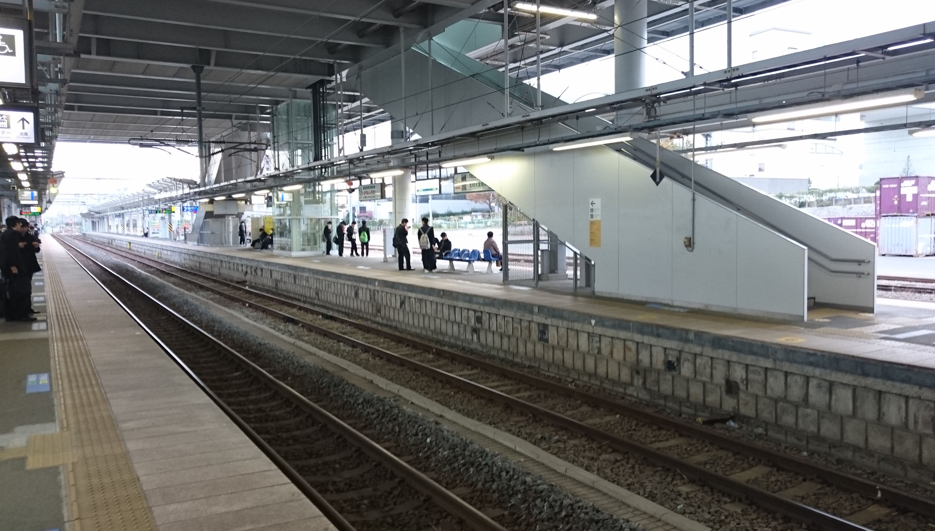 Platforms of Hitachi Station